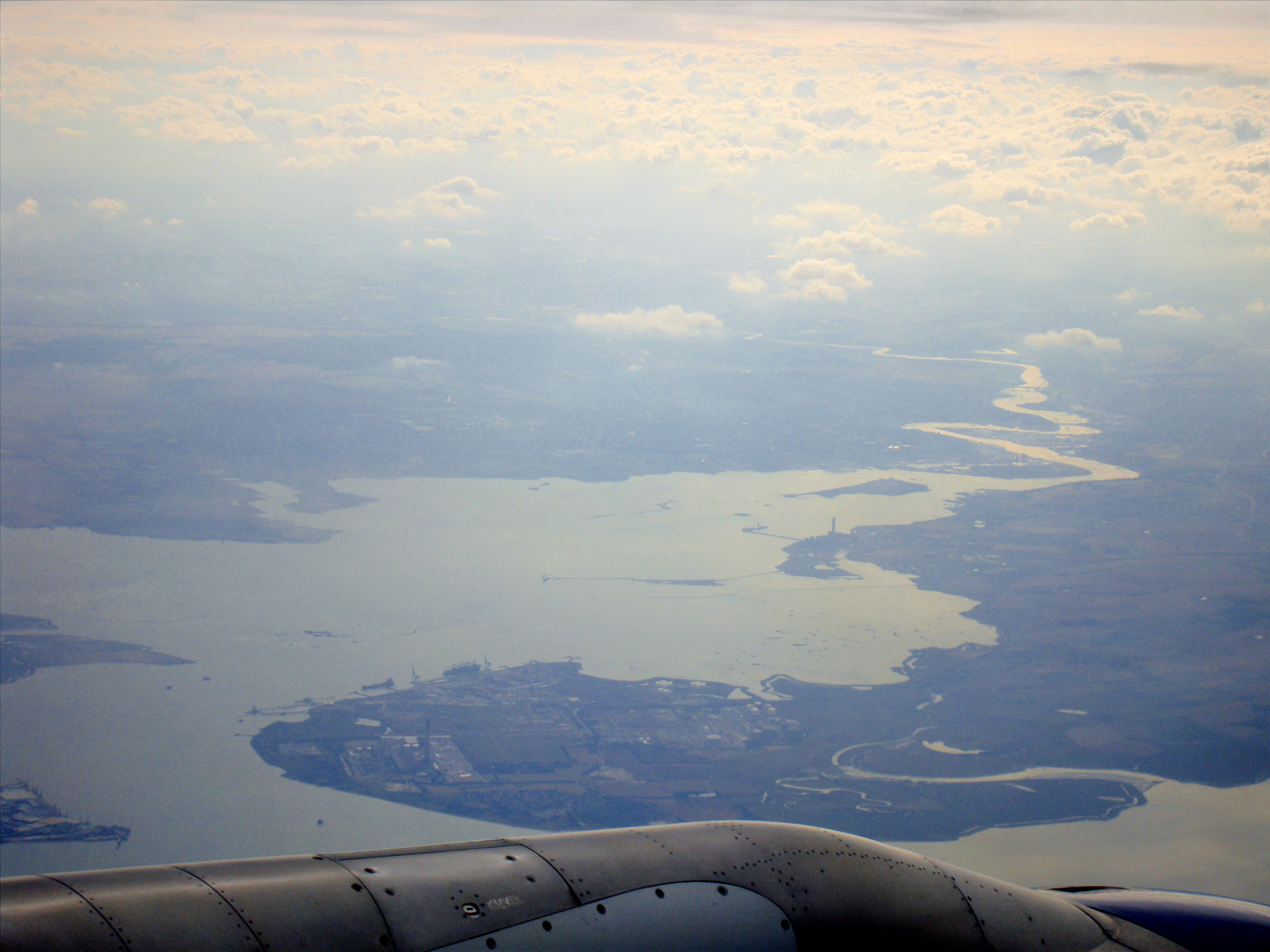 Photograph of the Isle of Grain and Medway estuary from the air, looking south-west